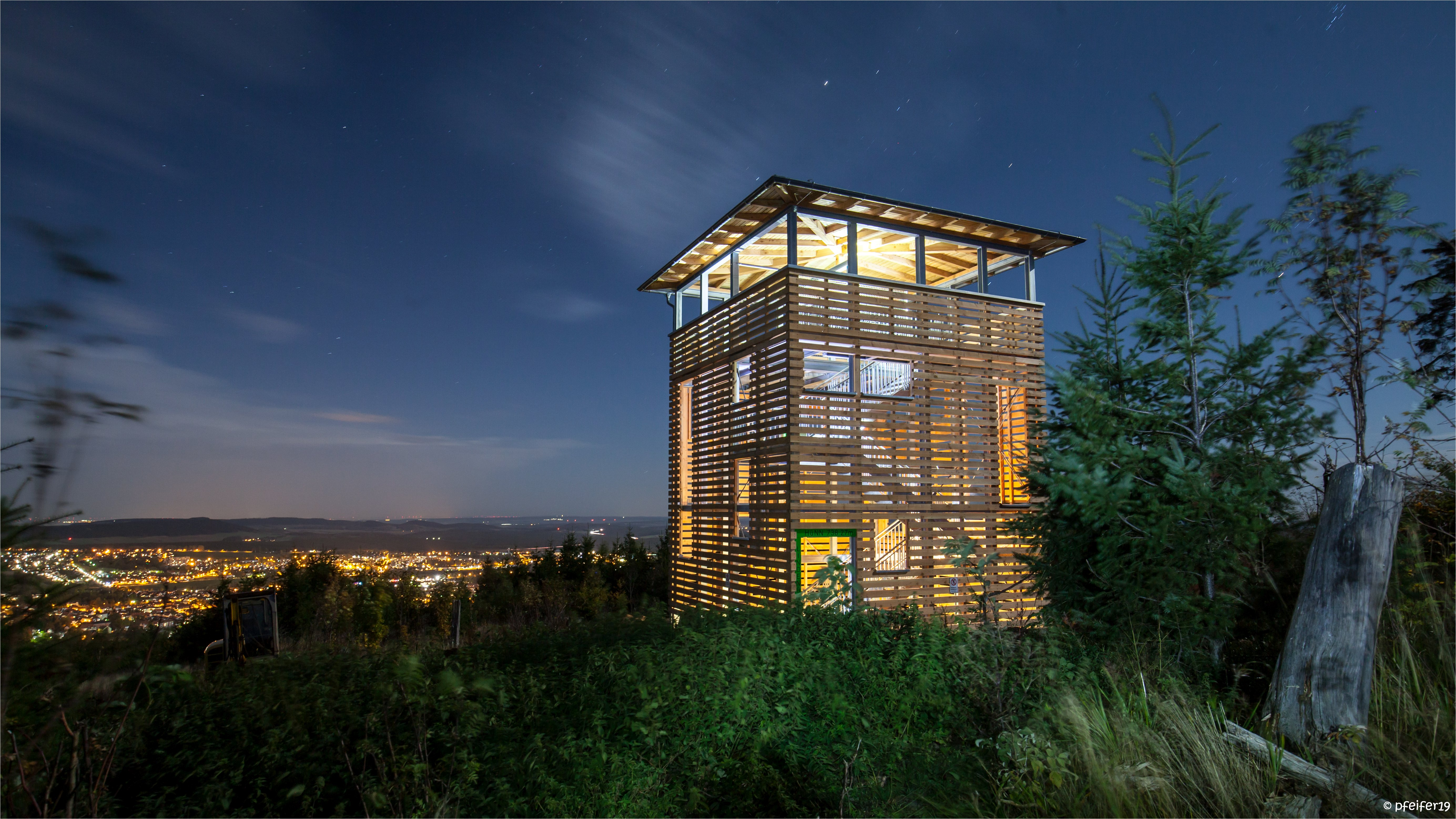 Observation tower on the Lindenberg (Thuringian Forest) near Ilmenau at night, artificially illuminated by the photographer